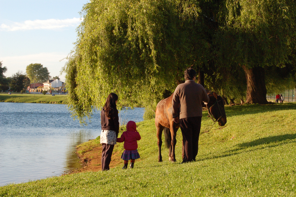 Animales que frecuentan los alrededores de la Laguna, los cuales llaman la atención de los visitantes.